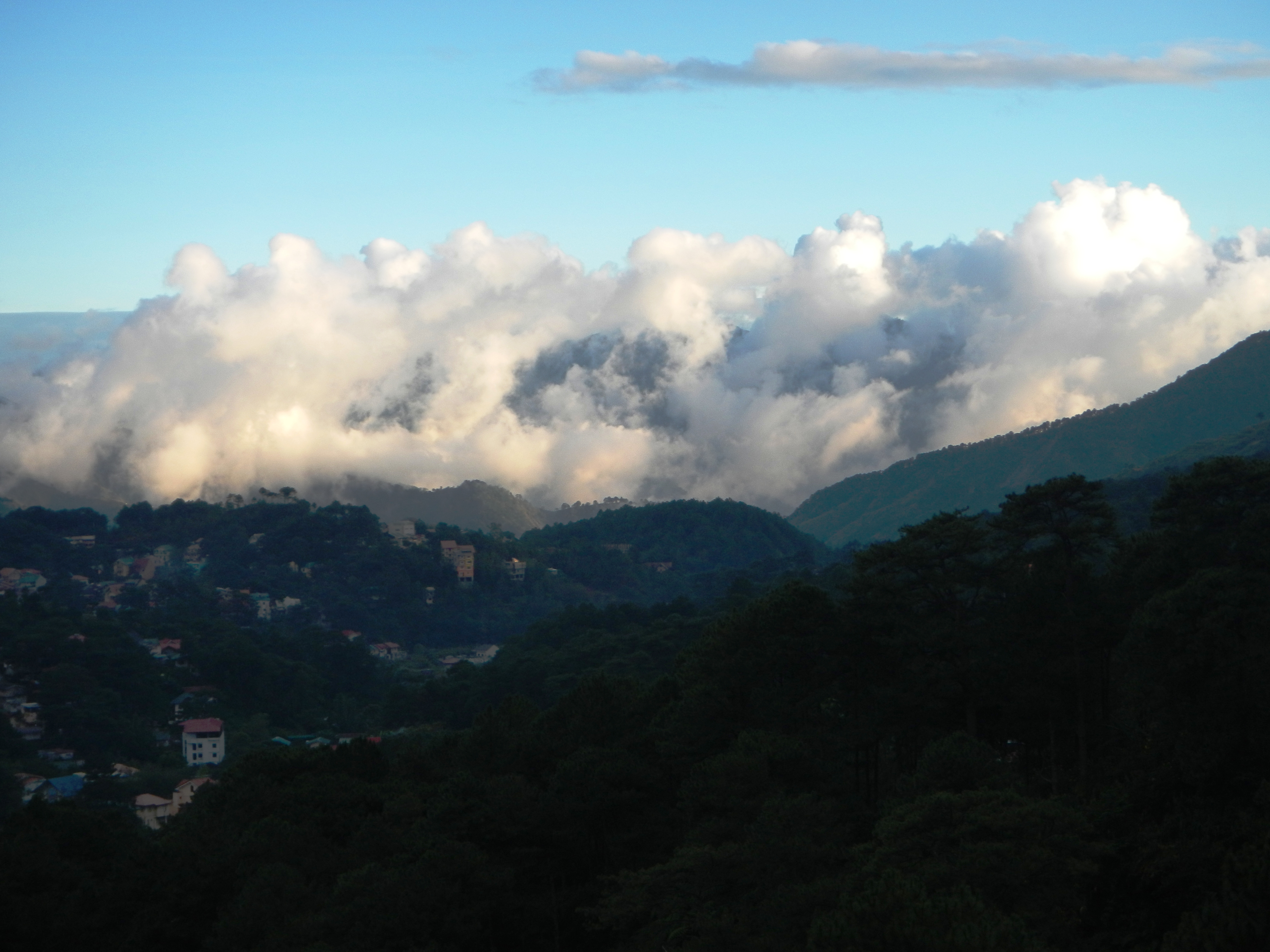 Upload Wizard photos of - Baguio[1] City - the landmark tourist heritage site of - Mt. Peace Retreat House Green Valley Dontogan Barangay Mt. Cabuyao Welcome Arch, landscape and panorama view of the Mountains, the Philippine Commission[2]'s First Session in Baguio - April 22 - June 11, 1904 Marker Schurman Commission - beside the - Baguio Cathedral [3] [4] Baguio Central Business District. - Our Lady of the Atonement Cathedral Mount Hill, Cathedral Loop, Baguio City adjacent to Session Road[5] - Radial Road 9 [6] - [7] Website of Cathedral Cathedral Hill, 2600 Baguio City Titular: Our Lady of Atonement (July 9) Parish Priest: Fr. Emmanuel Panayo Parochial Vicar: Fr. Seraph Balmadres [8] Titular: Our Lady of Atonement, July 9 Parish Priest: Fr. Emmanuel Panayo.[9]